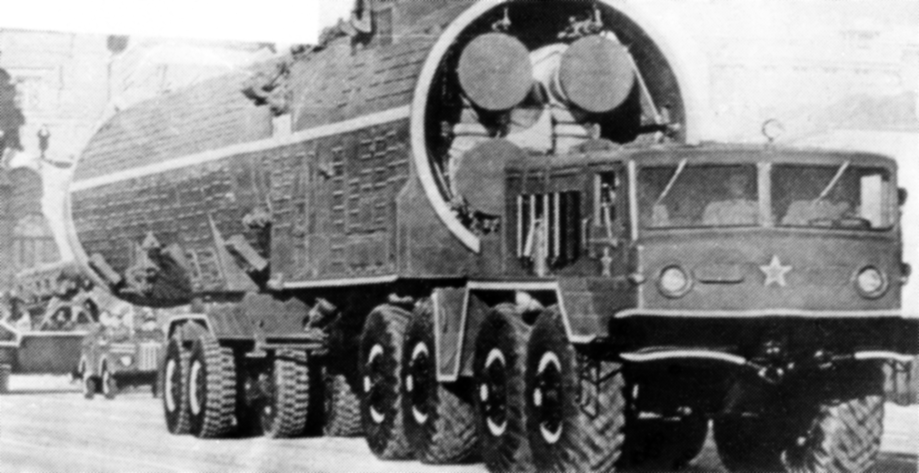 A right front view of a vehicle-mounted Soviet Galosh anti-ballistic missile launcher.